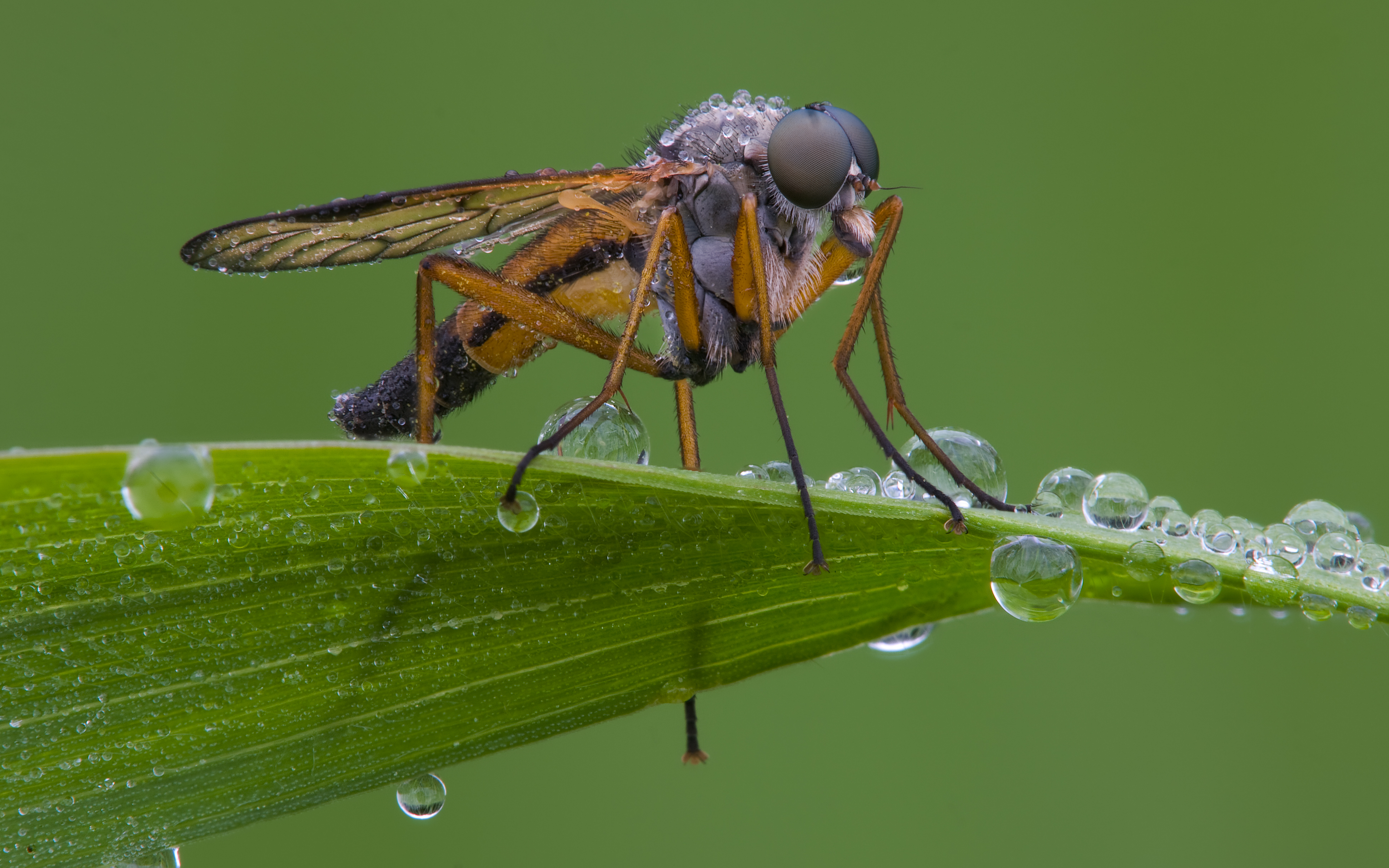 Snipe fly (Rhagio scolopaceus) Rhagionidae or snipe flies are a small family of flies containing 21 genera.